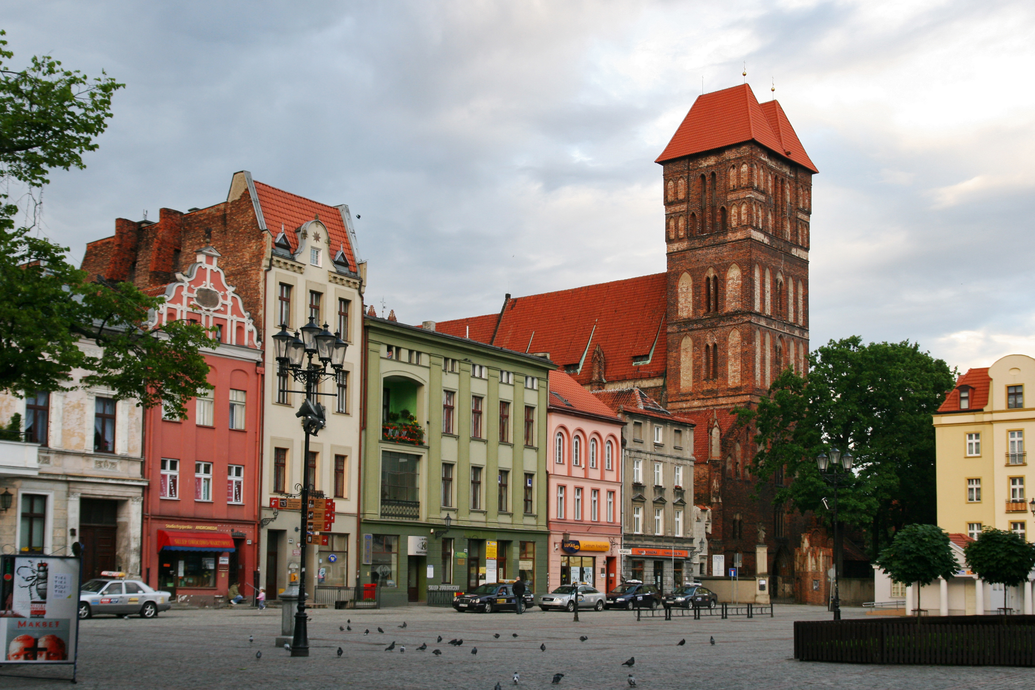 New Town Market Square and the church of St. James in Toruń.